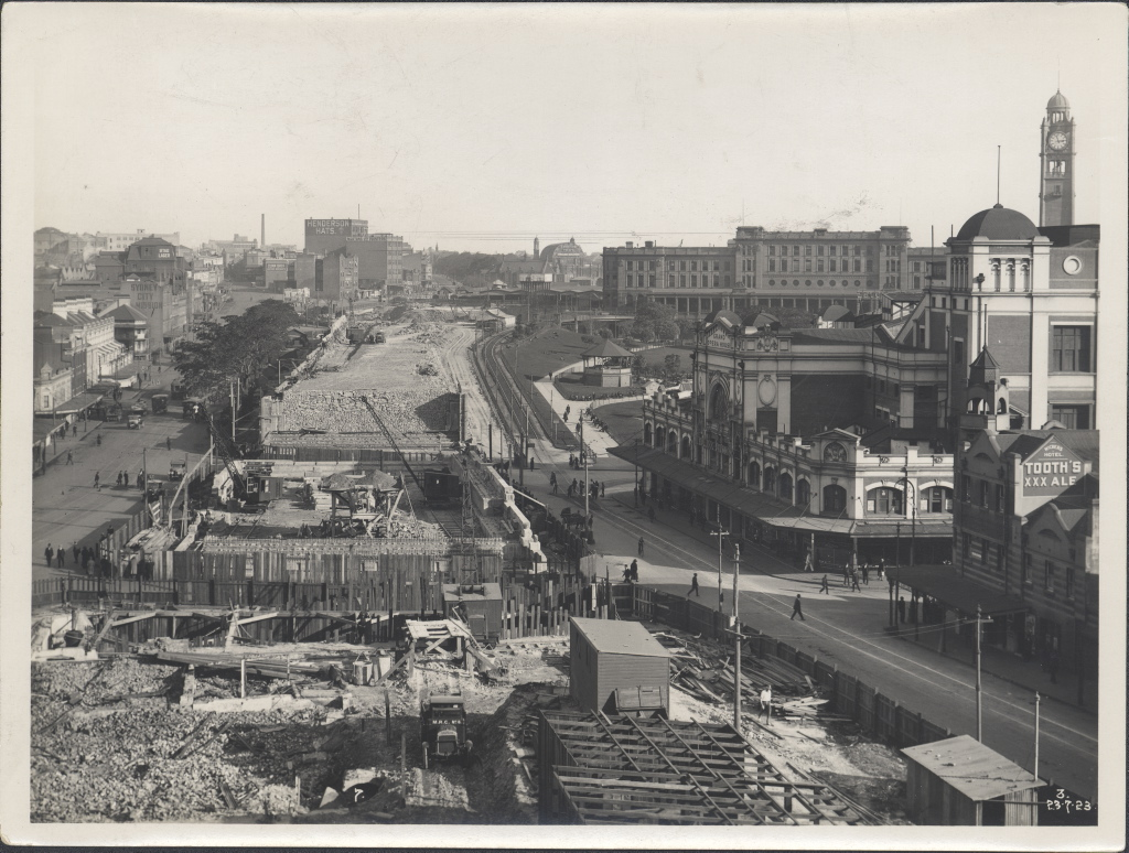 Format: Photographic print. Part Of: Powerhouse Museum Collection General information about the Powerhouse Museum Collection is available at Persistent URL: Acquisition credit line: Gift of Dorothy Stuckey, 1987